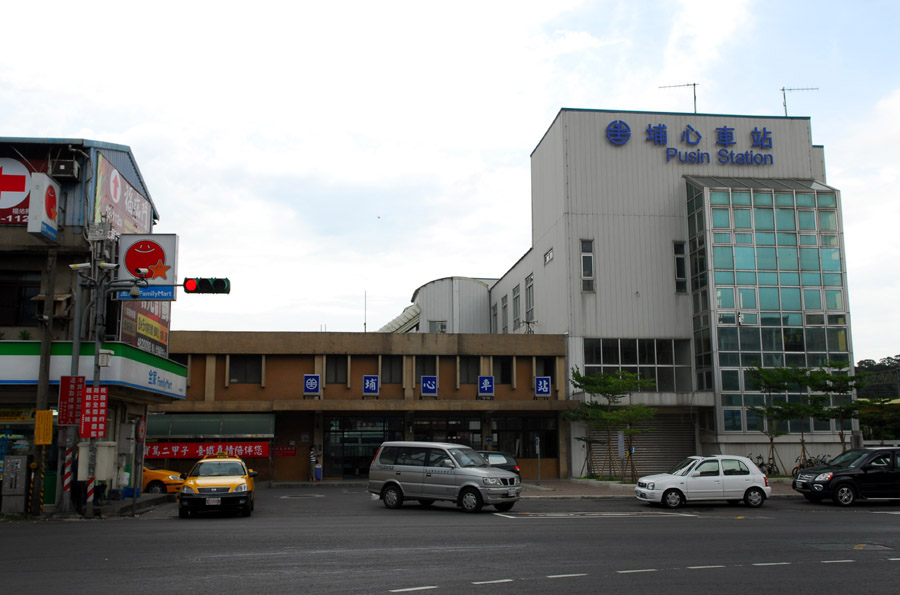 Pusin Station is a local train station of Taiwan's Western main rail line. The station is located within the boundary of Yangmei Town, Taoyuan County.